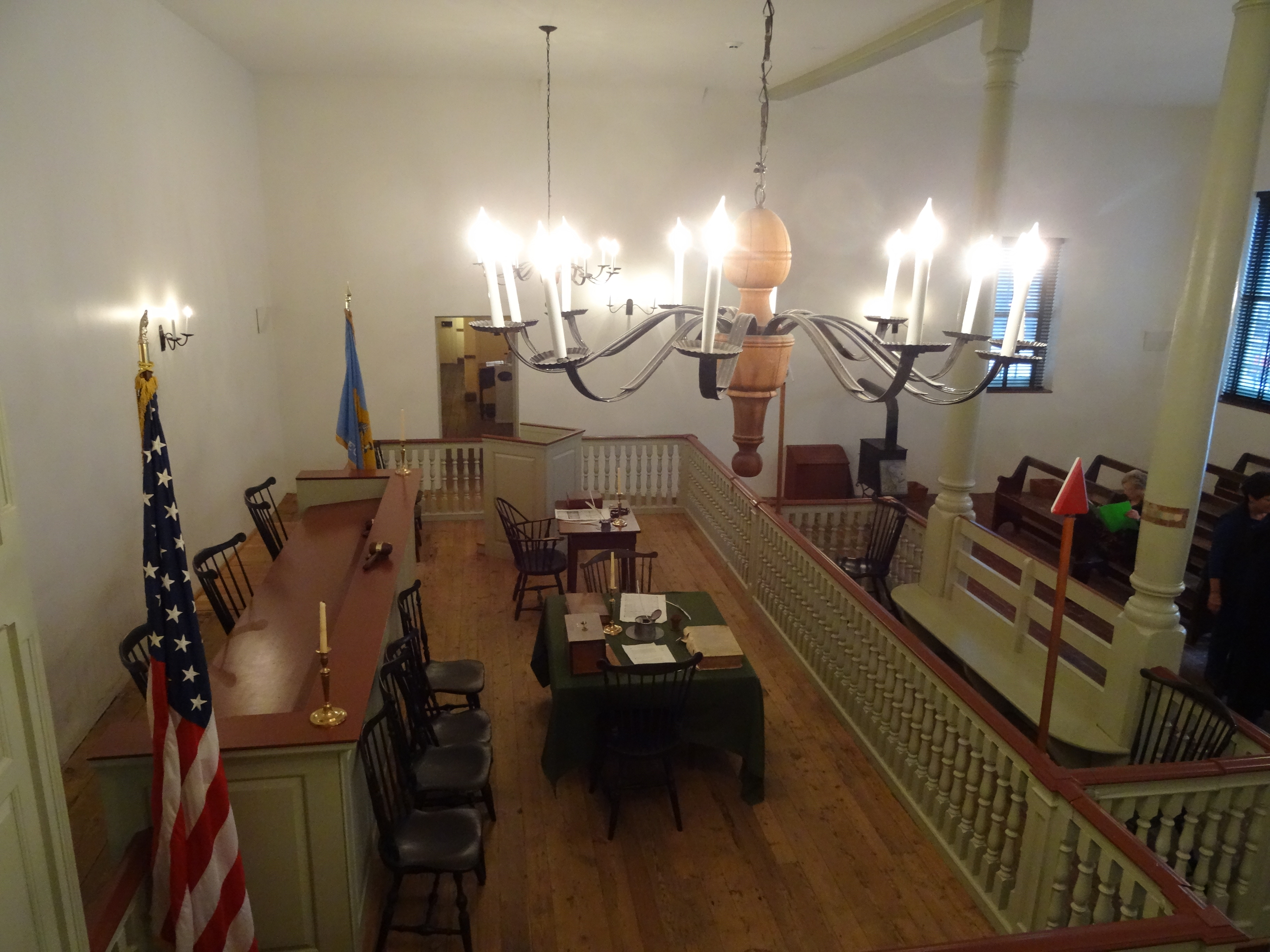 The room where trials were held in the New Castle Court House.